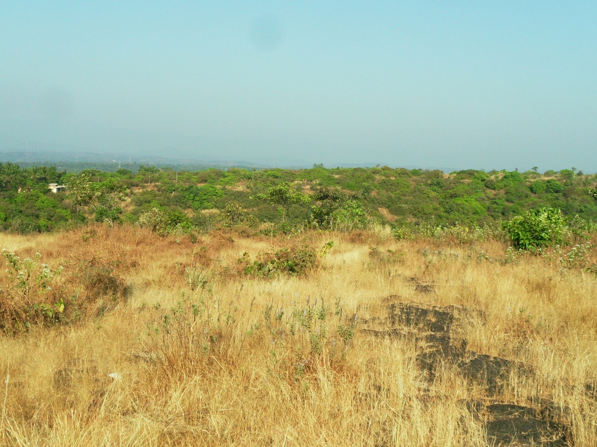 paadikkunu2